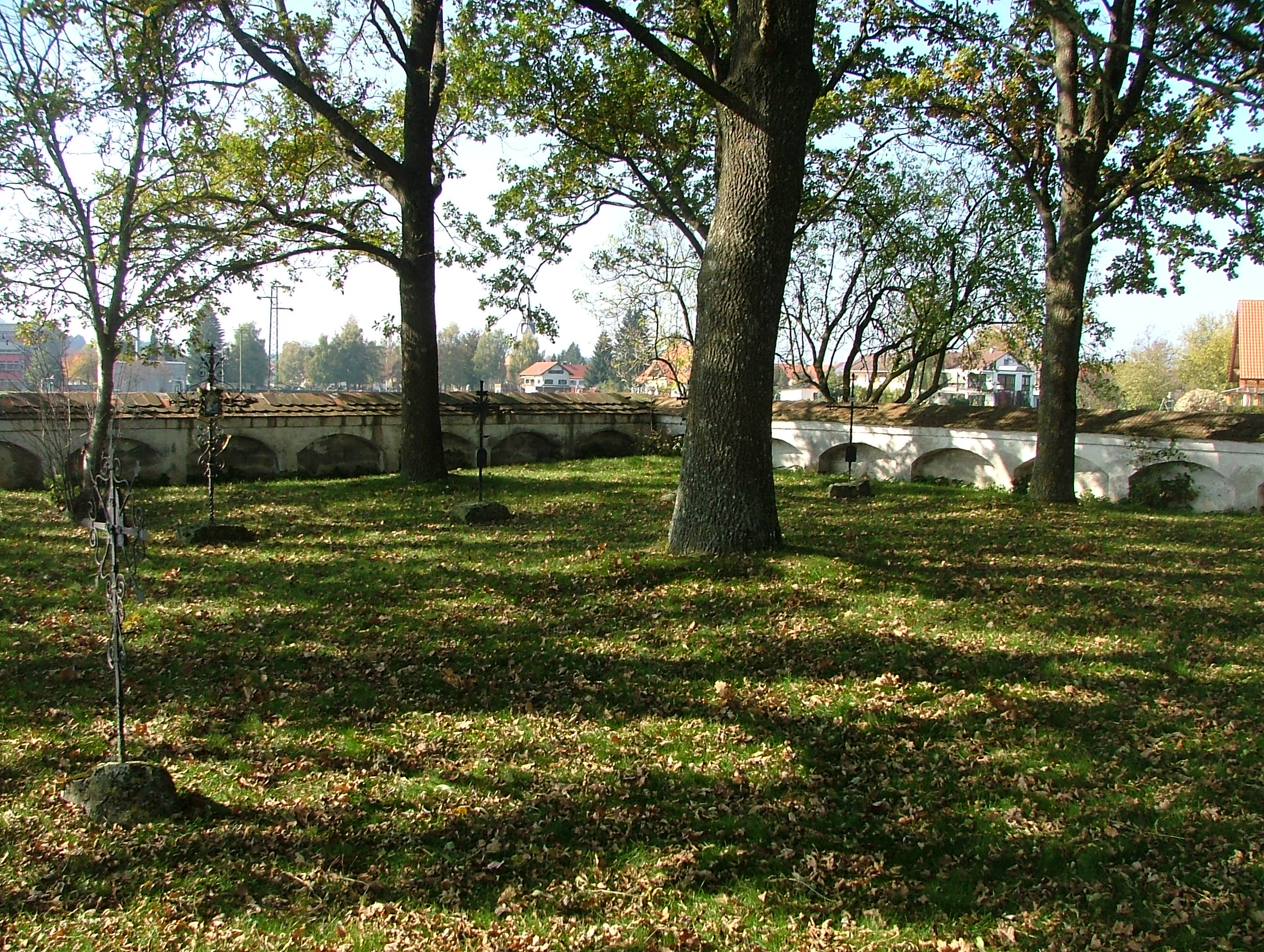 Pestfriedhof bei Lehenbühl